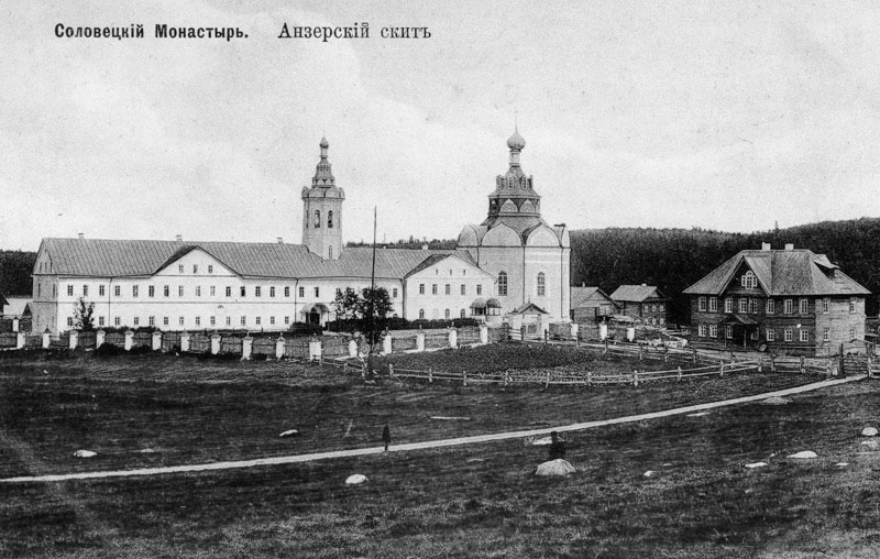 Anzersky Skit in Solovki Monastery, pre-1917 postcard Flickr data on 2011-08-13 Tags: Old picture, Solovki, Monastery, Solovki Monastery, Skit, Anzersky, Anzersky Skit, postcard License: CC BY-SA 2.0 User: paukrus Ruslan